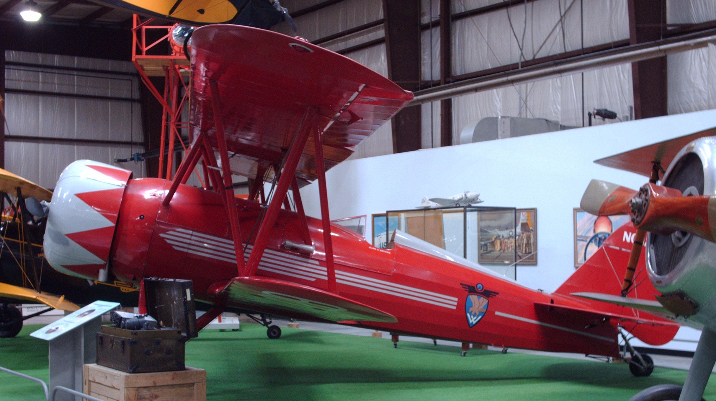 Curtiss-Wright CW-14 Osprey while in Richmond, VA